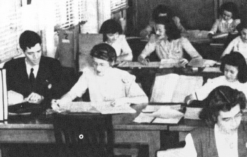 Meredith Gardner, who helped break the Venona code, at far left, working with other cryptanalysts.